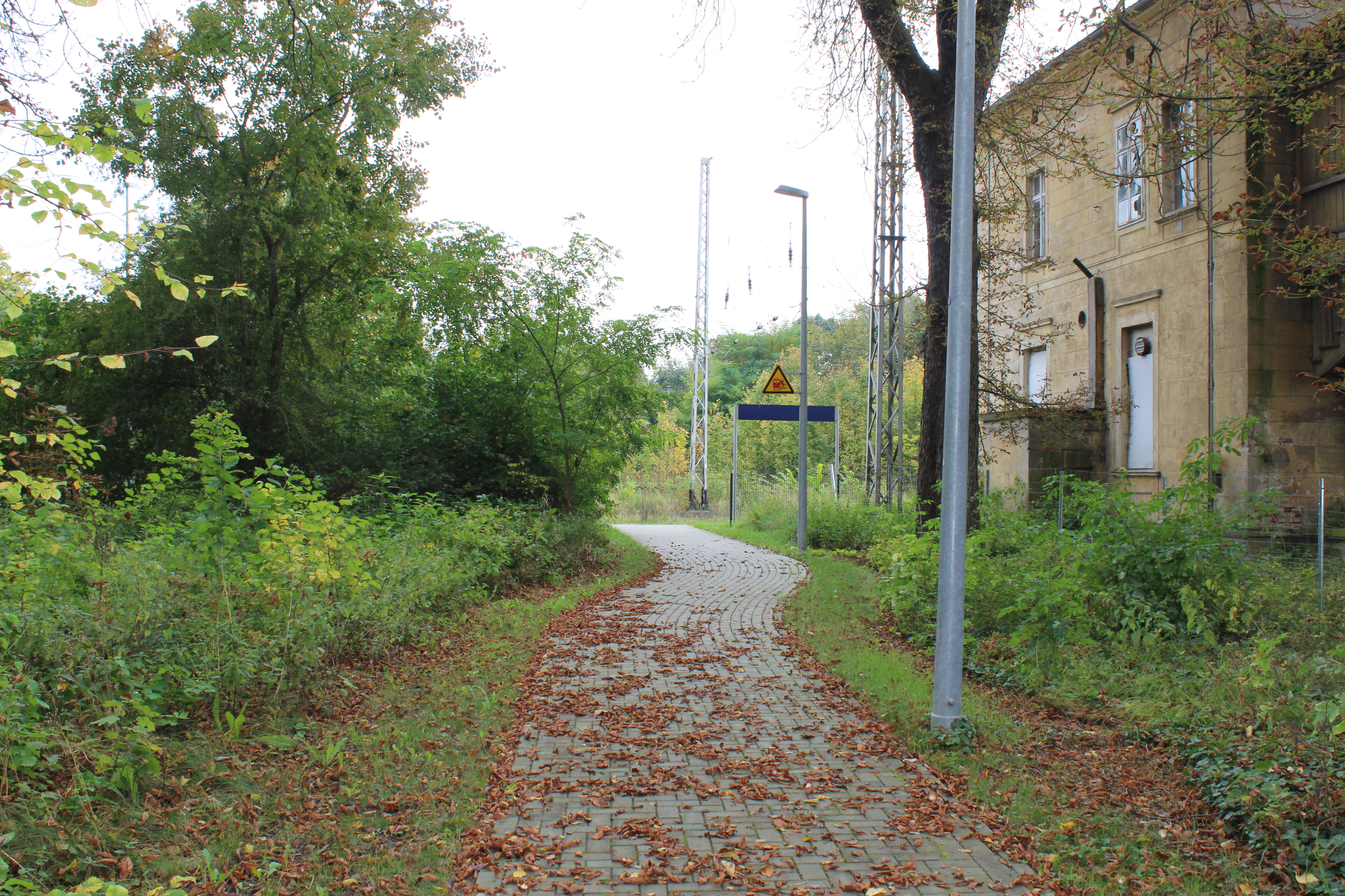 train station Passow, entrance